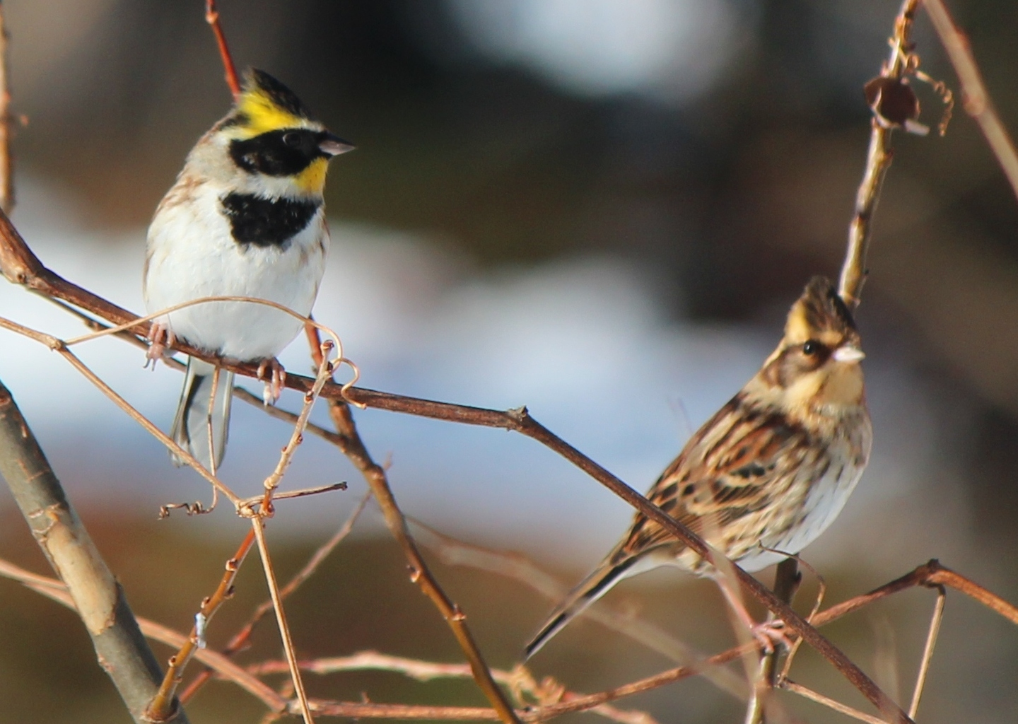 Emberiza elegans (Yellow-throated Bunting), male(left) and female(right) in Japan.